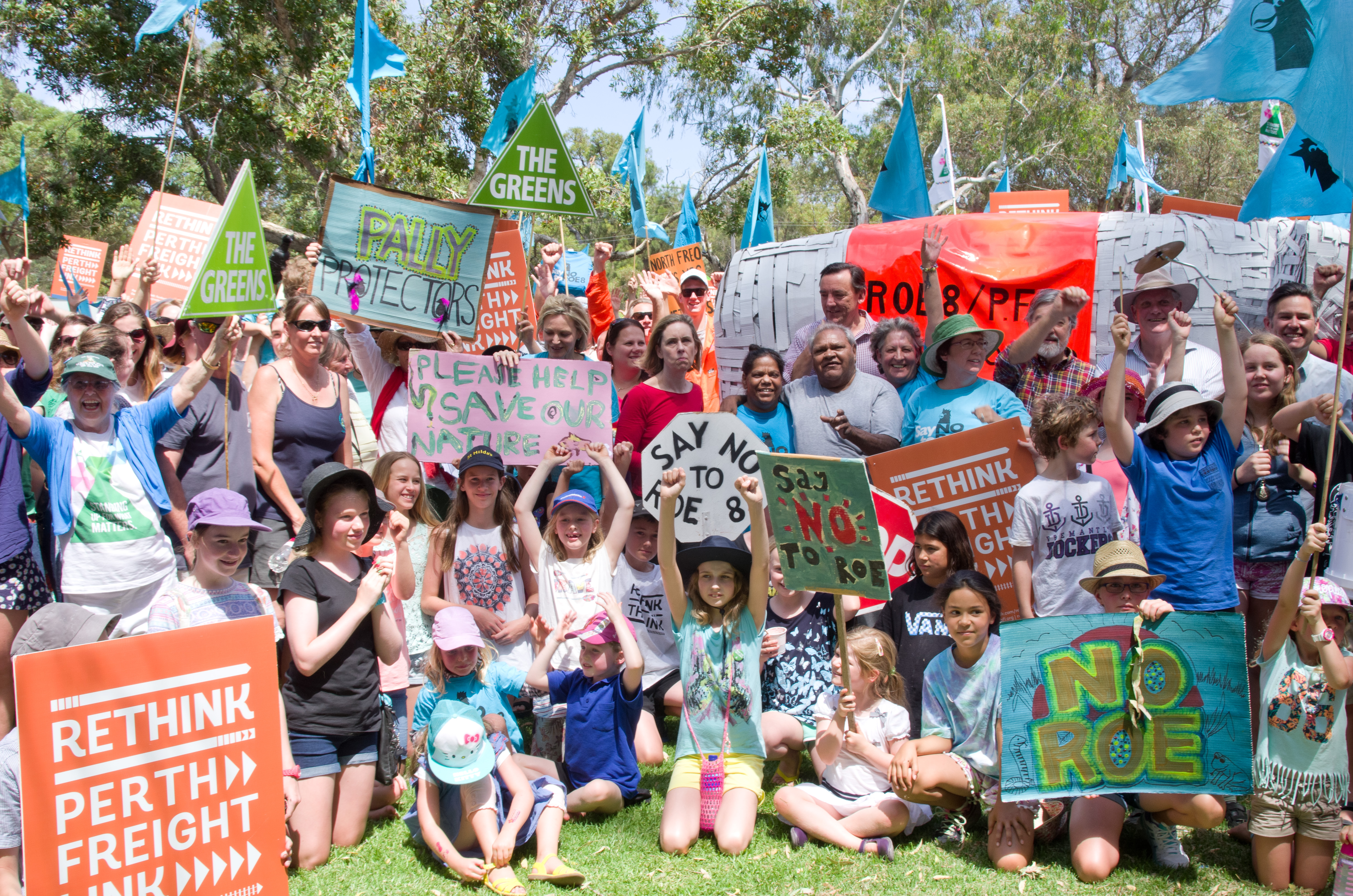 Protest against the Roe 8 / Perth Freight link proposal. Corina Abraham is wearing a blue shirt; she's in the centre of this photo behind the white sign with "Say no to Roe 8" at Bibra Lake